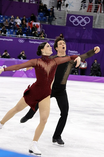 Tessa Virtue and Scott Moir at the 2018 Winter Olympic Games in PyeongChang